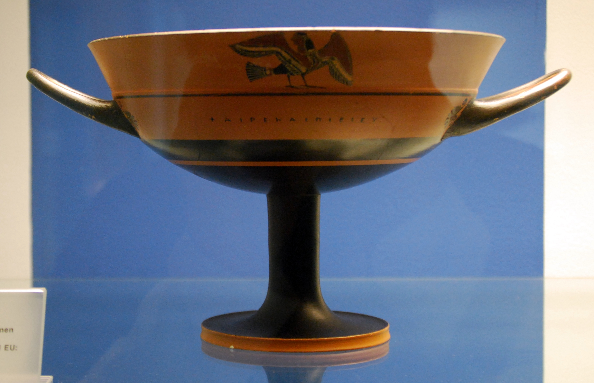 Attic black-figure lip cup near the Phrynos Painter; (A-site: Herakles shoot at the Kentaur (Nessos?)), B-site: Siren and Inscription XAIRE KAI PIEI EU [Be greeted and drink]; about 560/550 BC; Museum August Kestner Hanover; Inventary number 1972.1